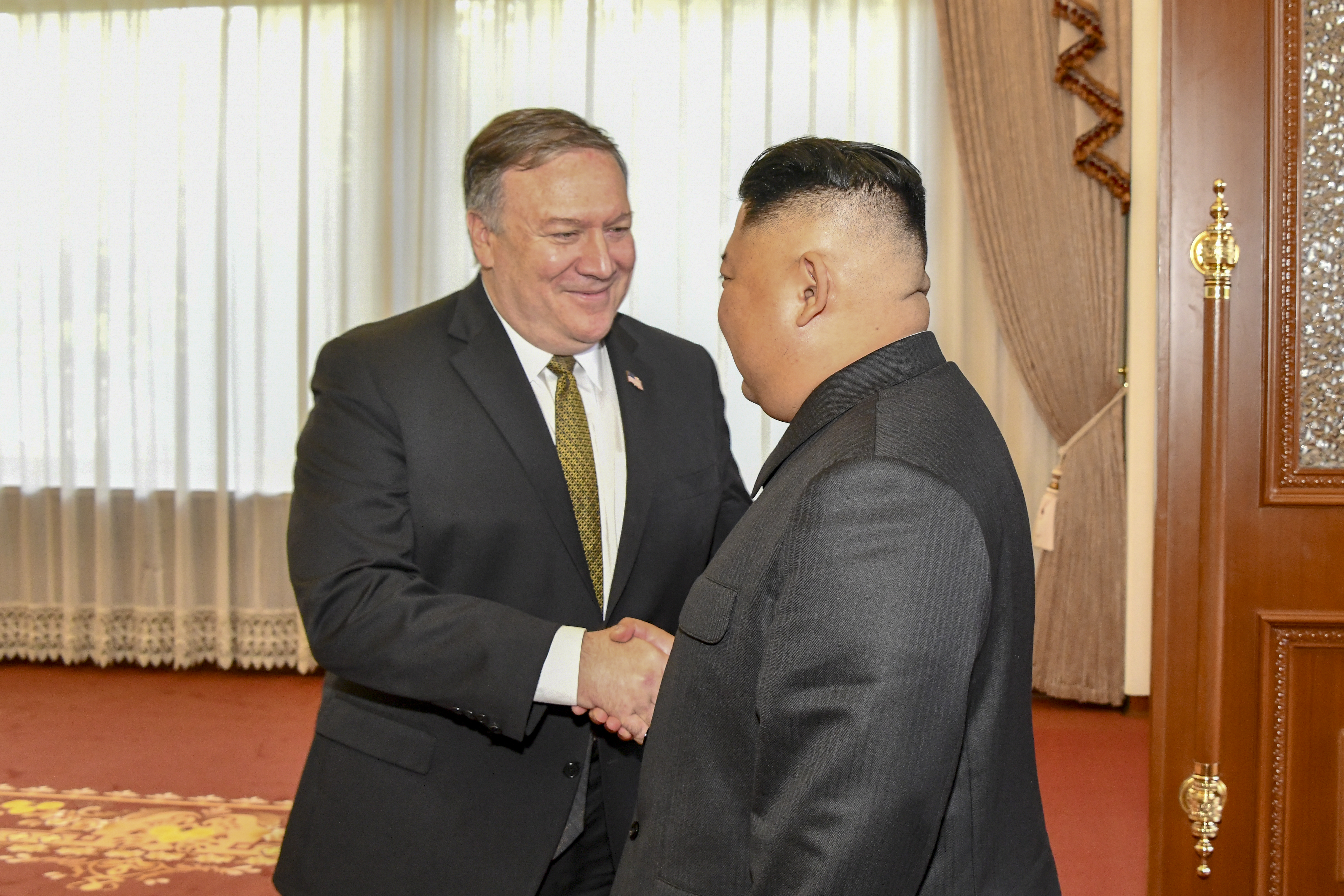 Secretary of State Michael R. Pompeo and Chairman Kim Jong Un of the Democratic People's Republic of Korea attend a working lunch in Pyongyang, Democratic People's Republic of Korea on October 7, 2018. [State Department photo/ Public Domain]